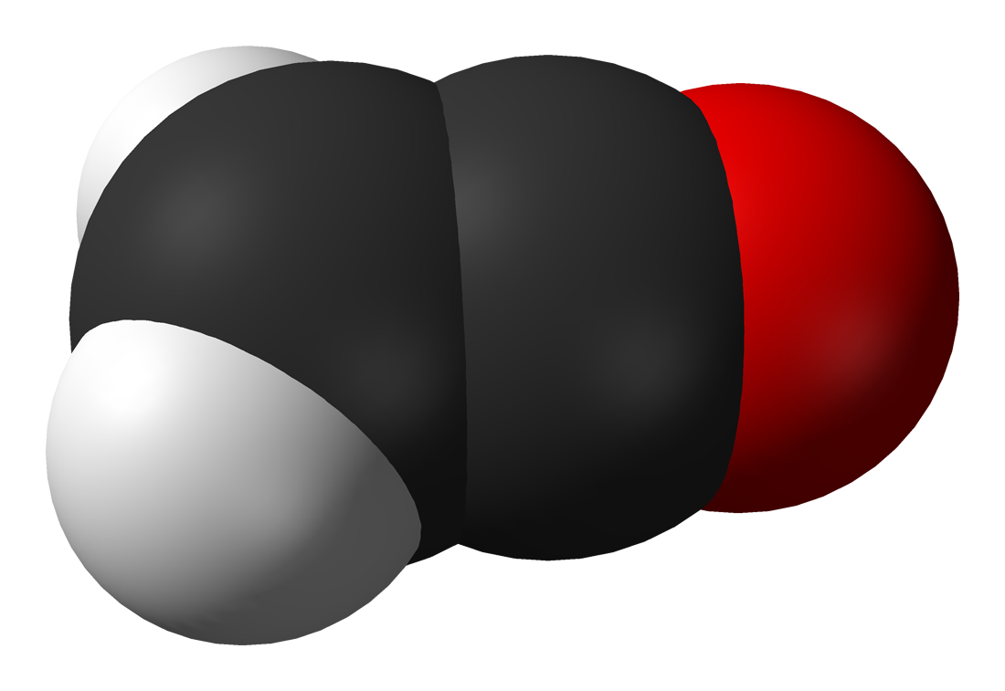 Space-filling model of the ketene molecule